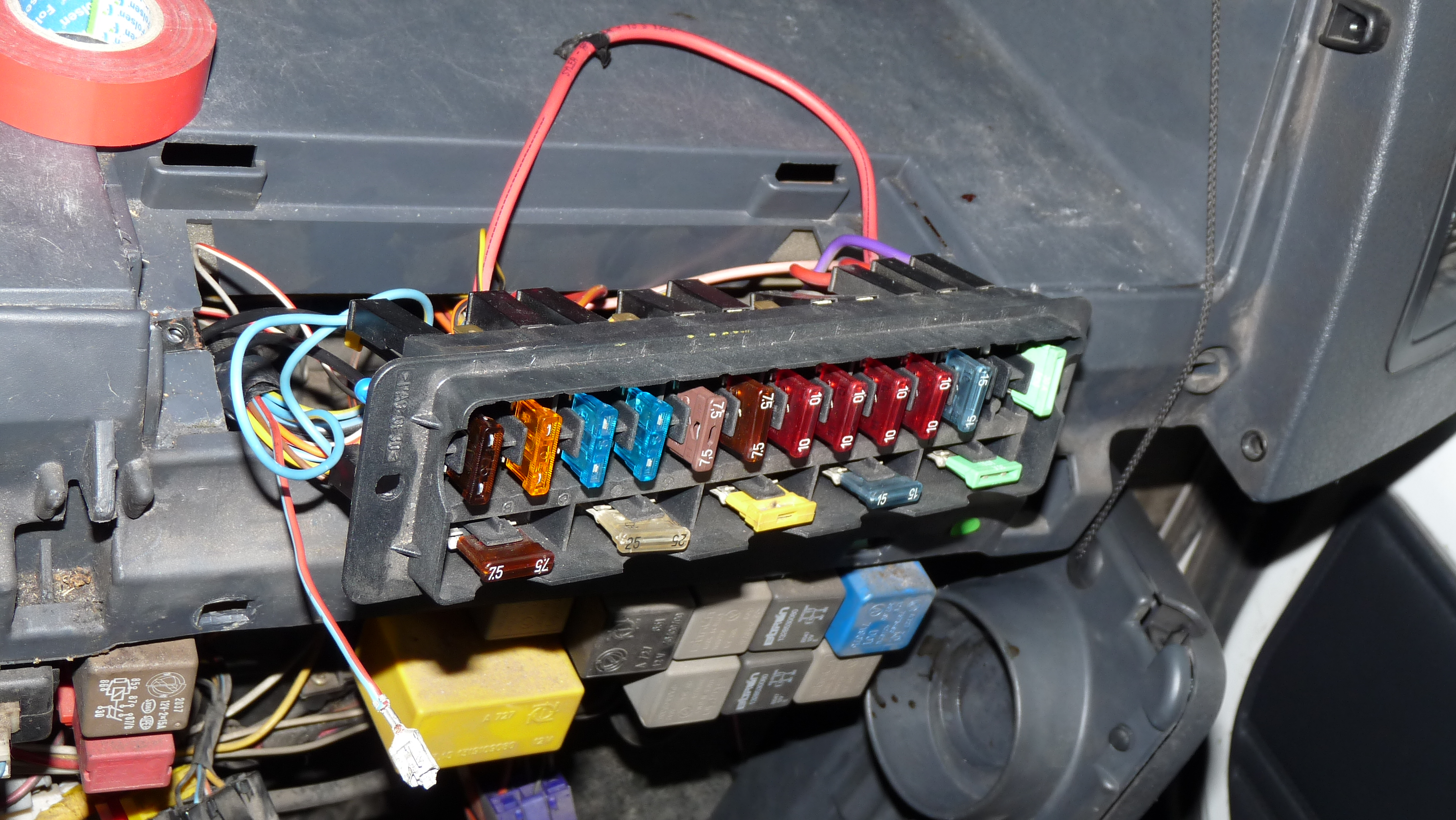 Blade fuses on Citroen Jumper